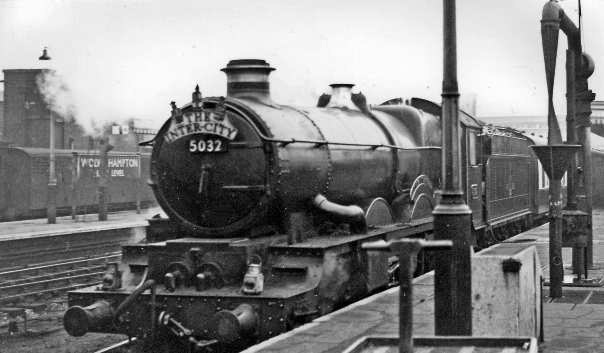 The 'Inter-City' arrives at Wolverhampton Low Level. View SE, towards Birmingham and the South: ex-GW London etc. - Birmingham - Chester etc. main line. Main line services here ended in 3/67 and the station was closed on 6/3/72. Here in 1958 the relatively short-lived 'Inter-City', 09.00 from Paddington, has arrived with ex-GW Collett 4-6-0 No. 5032 'Usk Castle' (built 5/34, withdrawn 9/62).